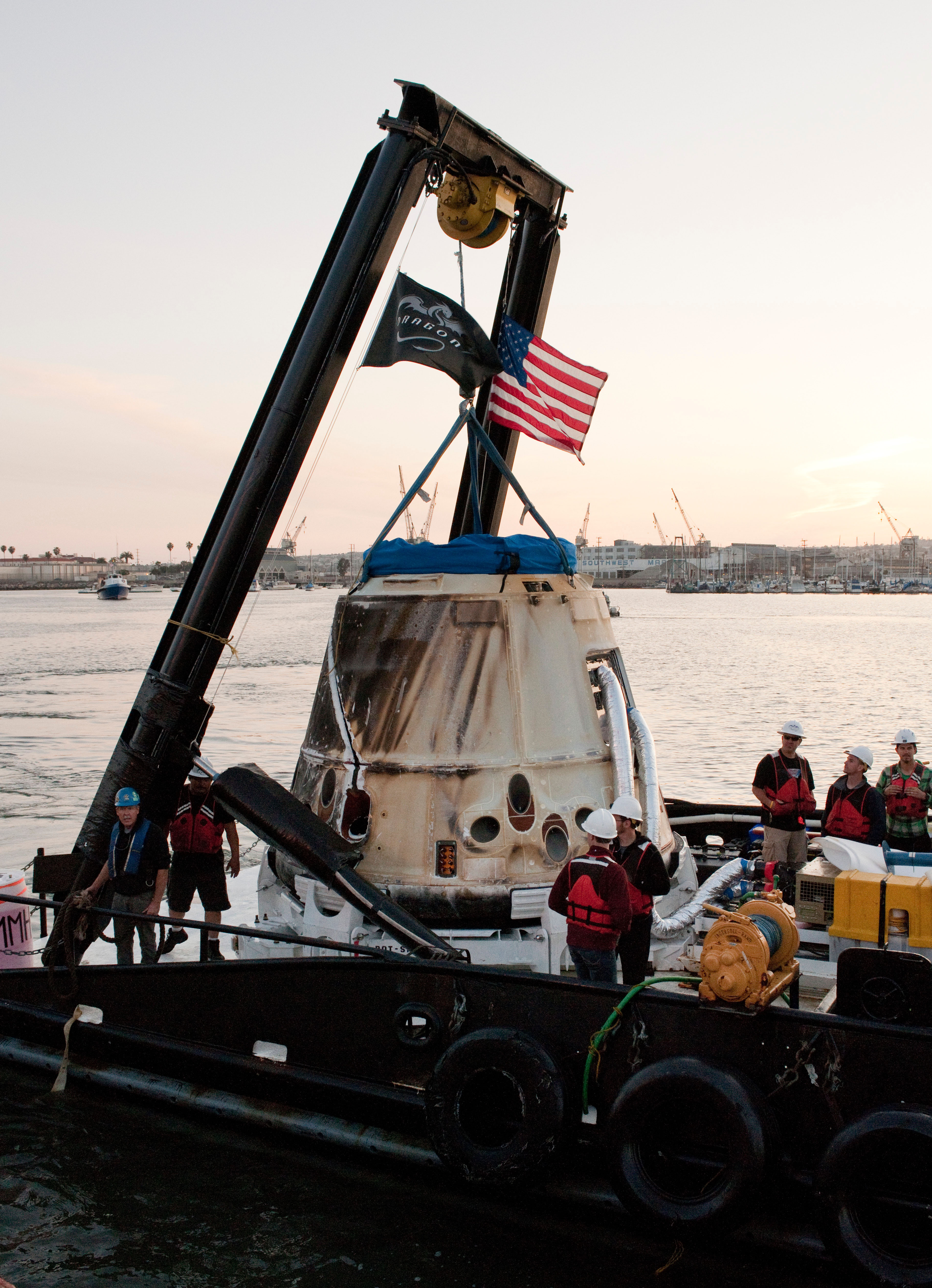 ED13-0079-02 (26 March 2013) ---- SpaceX Dragon's second operational mission ended on March 26 after three weeks attached to the International Space Station. The unmanned spacecraft splashed down in the Pacific Ocean about 214 miles off the coast of Baja California to successfully return about 2,670 pounds of science materials from the orbital outpost.